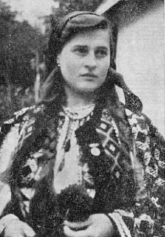 Mărioara Precup, fiica Mariei Precup